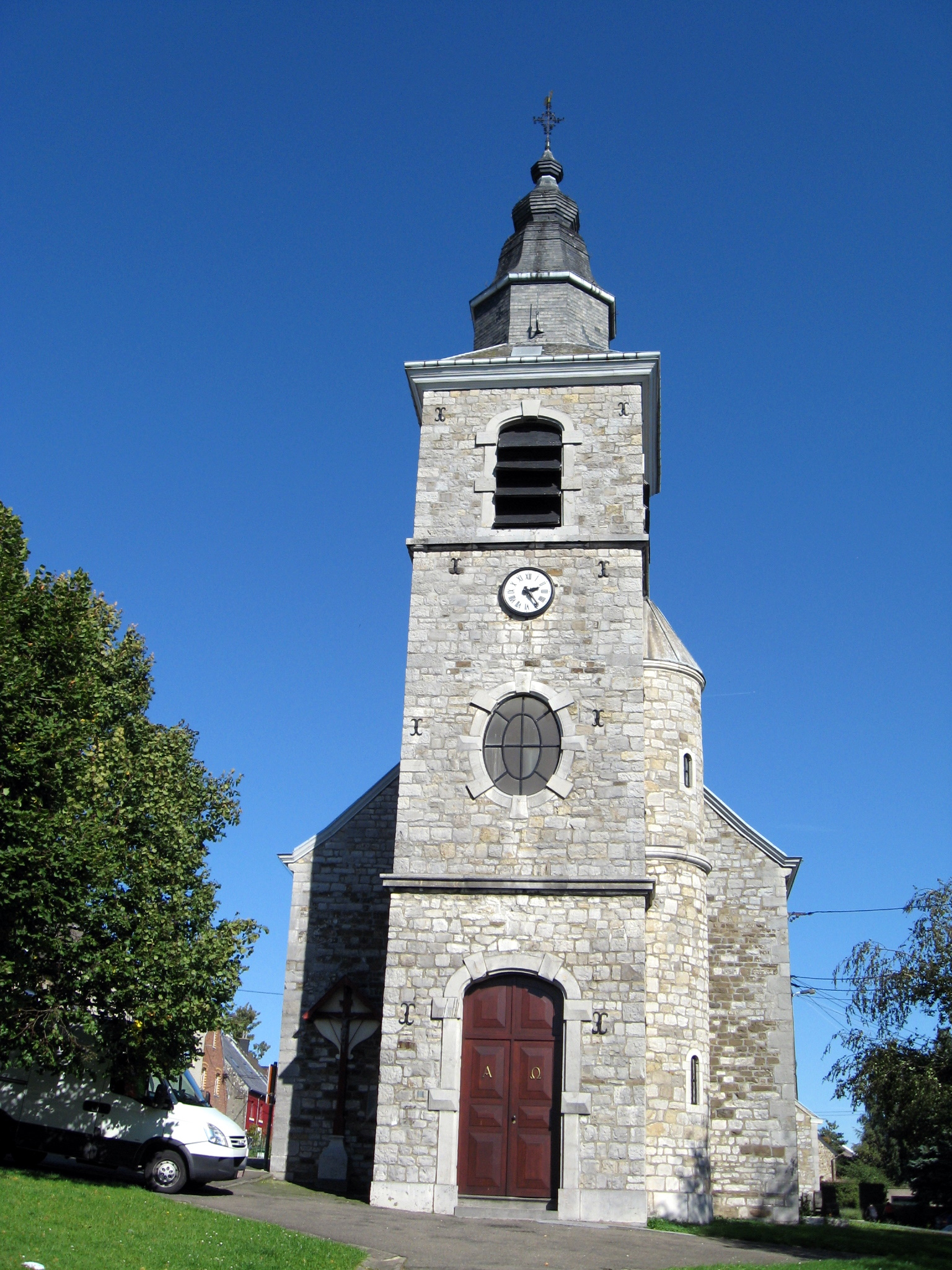 Church of Saint-John the Baptiser in Membach, Baelen, Liège, Belgium